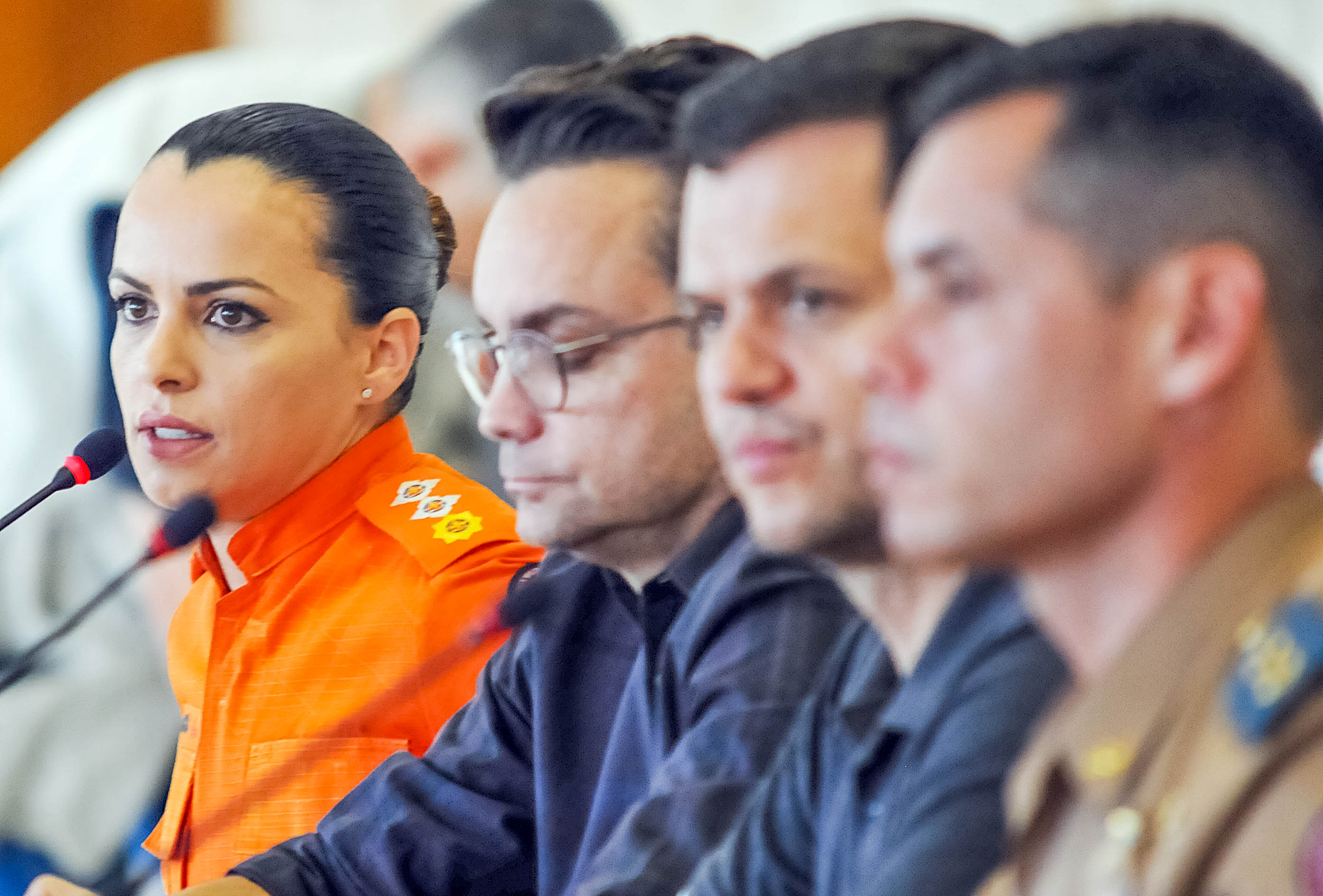 A informação foi divulgada neste sábado (14), em coletiva à imprensa no Palácio do Buriti, quando oficiais da corporação fizeram a demonstração de parte dos trabalhos que pretendem desenvolver para ajudar no combate à proliferação do coronavirus. Foto: Joel Rodrigues/Agência Brasília